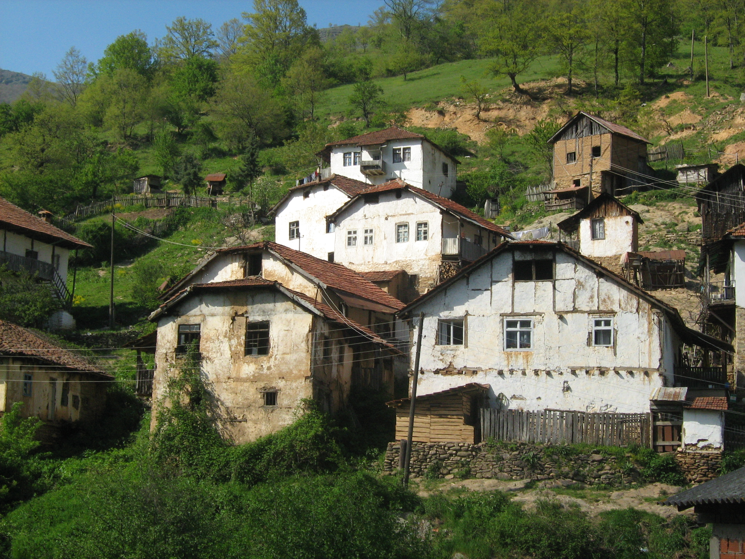 Village Oreše, Republic of Macedonia